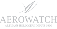 LOGO taken from